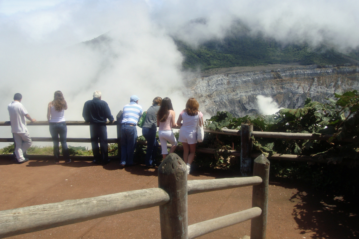 Viewing are at the Poas volcano crater, Poas National Park, Alajuela, Costa Rica.